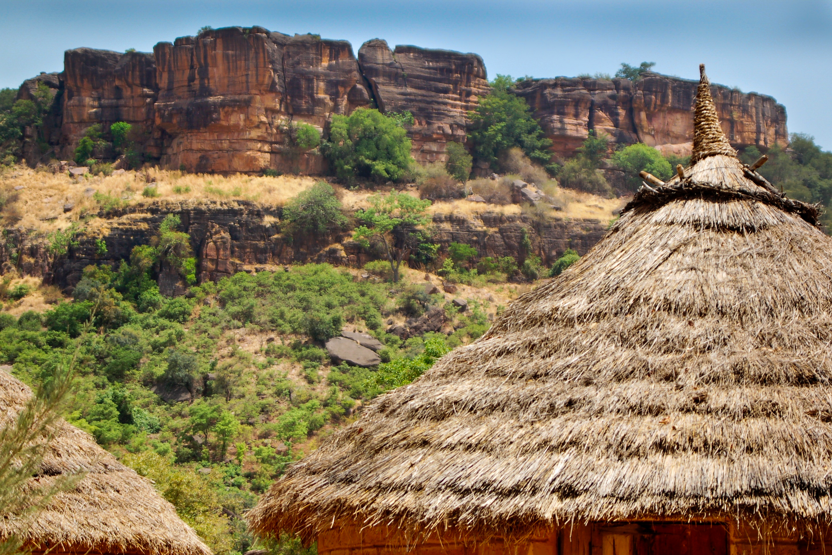 Siby is South-West of the capital Bamako.